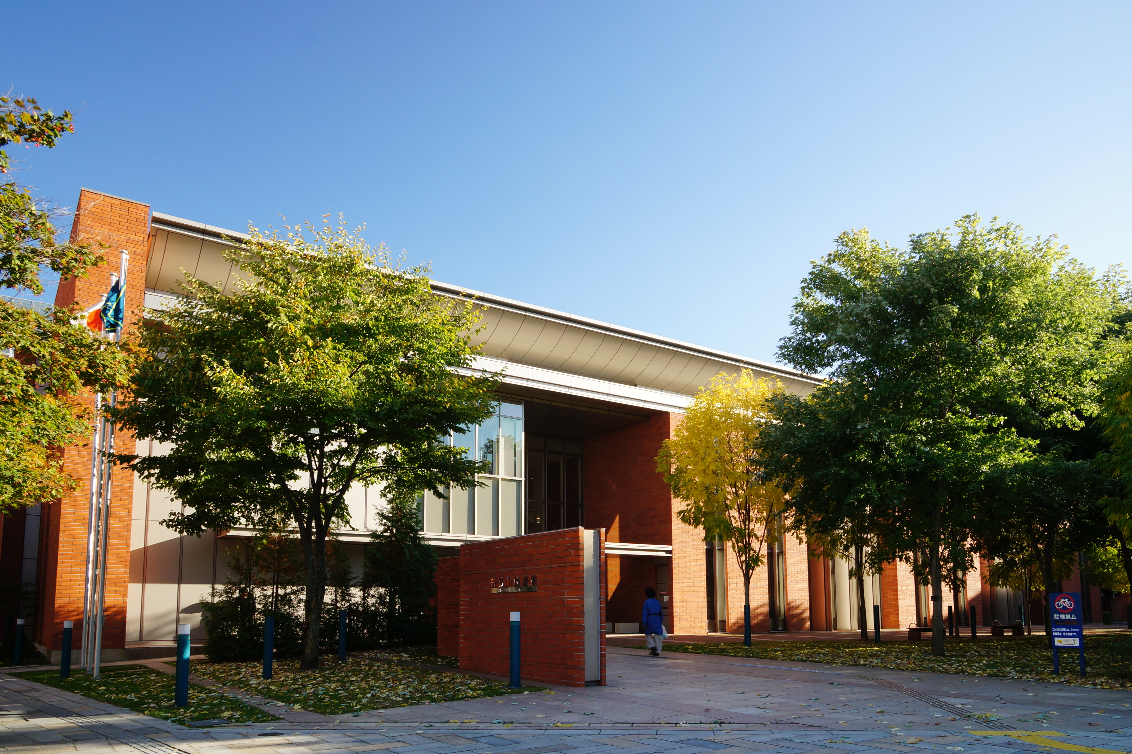 Obihiro City Library in Obihiro, Hokkaido prefecture, Japan.